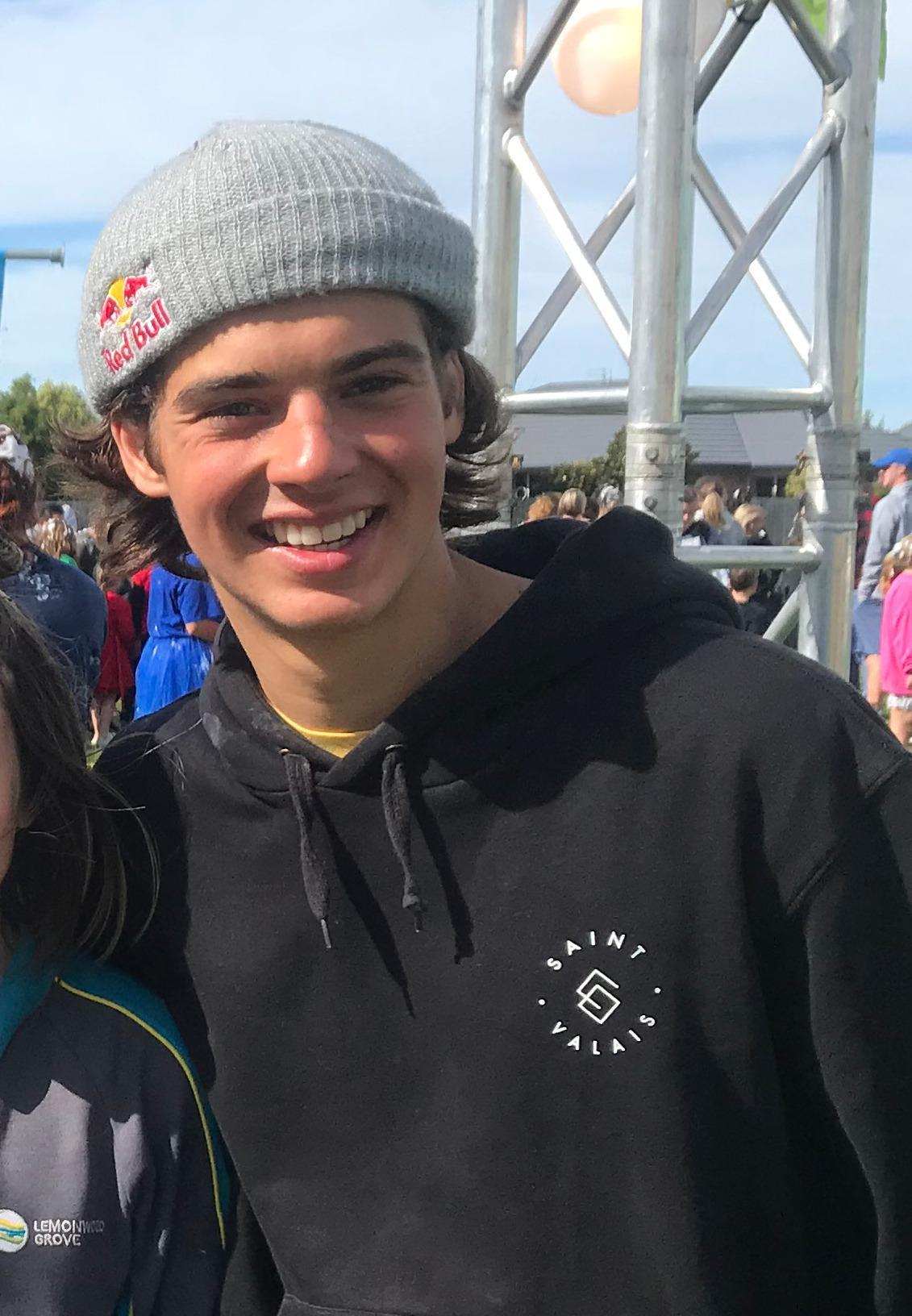 New Zealand athlete Nico Porteous on the set of the childrens television show 'What Now' in 2019, as part of a show broadcast live in Rolleston on Sunday 20th October.